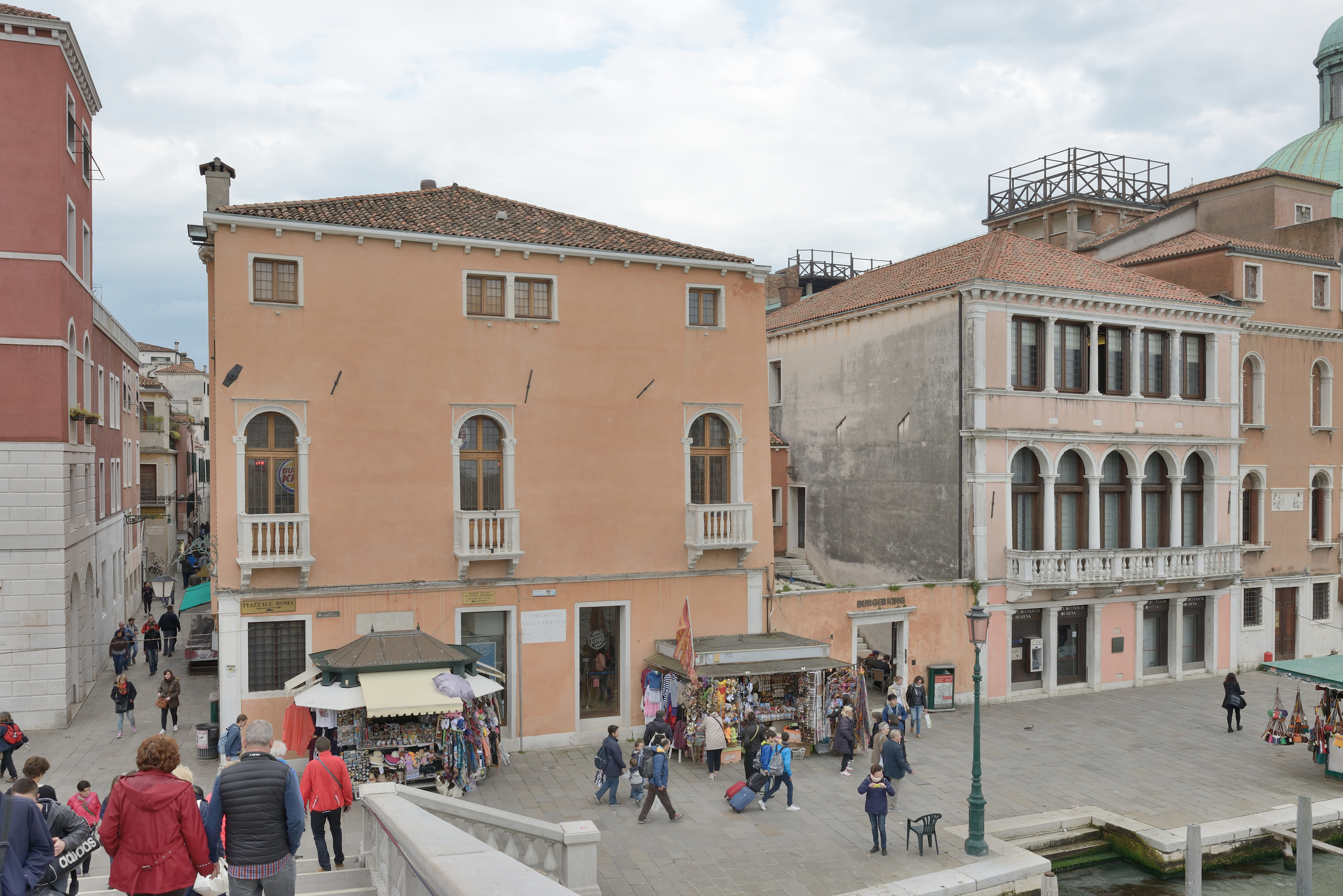 Facade of Palazzo Foscari Contarini on the Canal Grande in Venice.